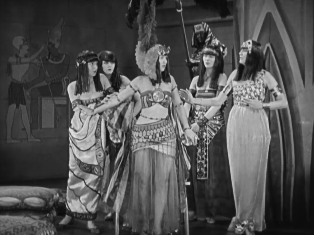 Screenshot from the silent film The Ten Commandments (1923).